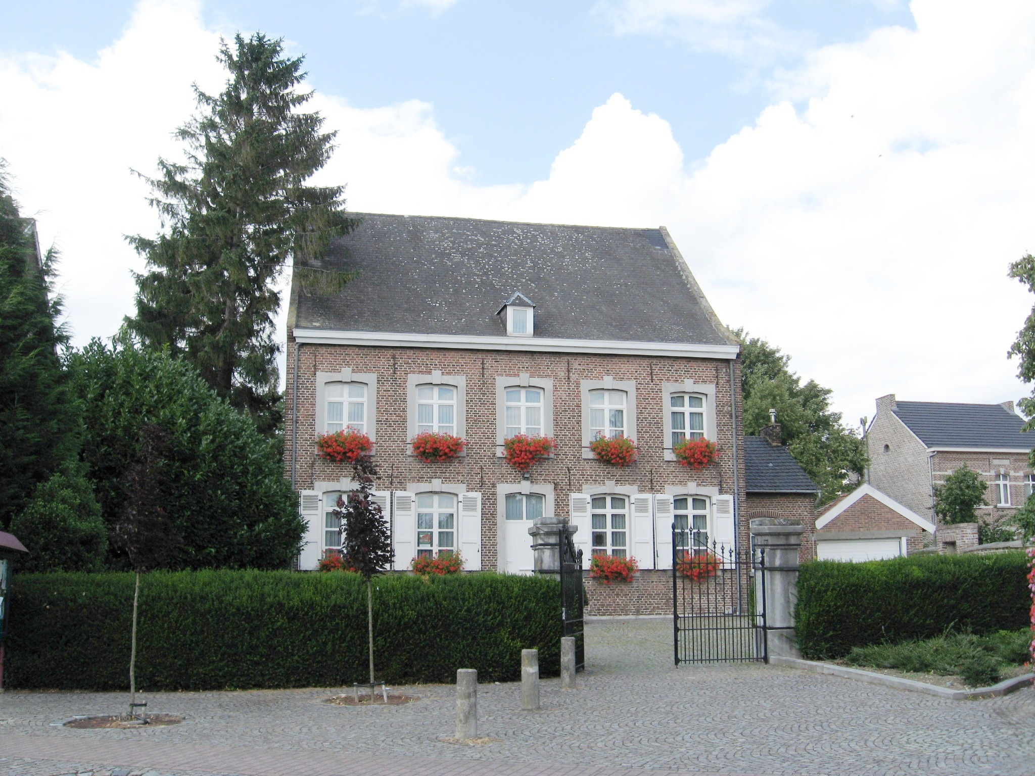 Rectory of Zepperen (1779)